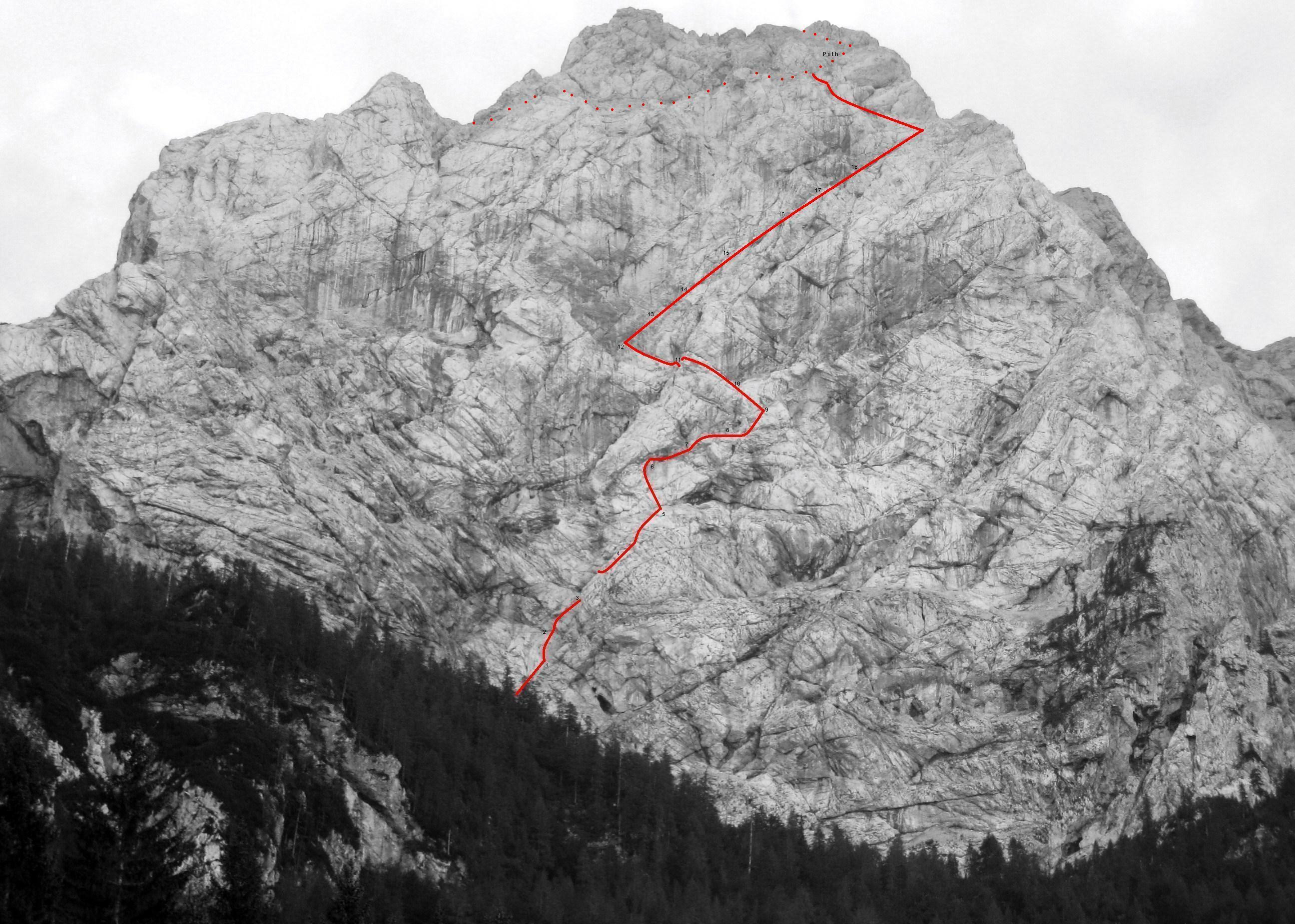 Ojstrica north face / Ogrin - Omersa route